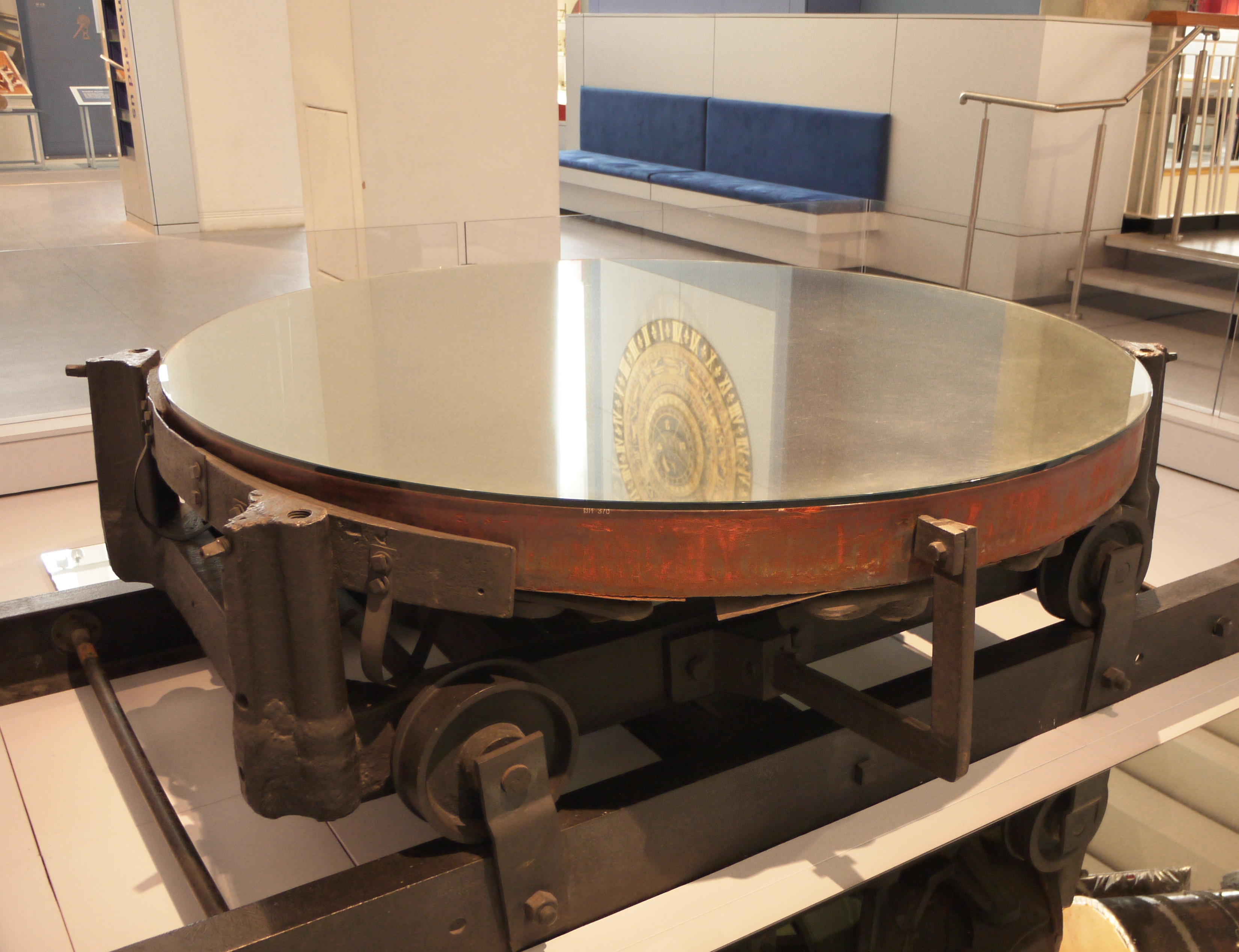 Photo of the original mirror of Lord Rosse six foot telescope now in the science museum